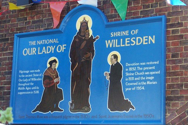 Our Lady Of Willesden NW10 Our Lady Of Willesden Catholic Church Acton Lane/Nicoll Road